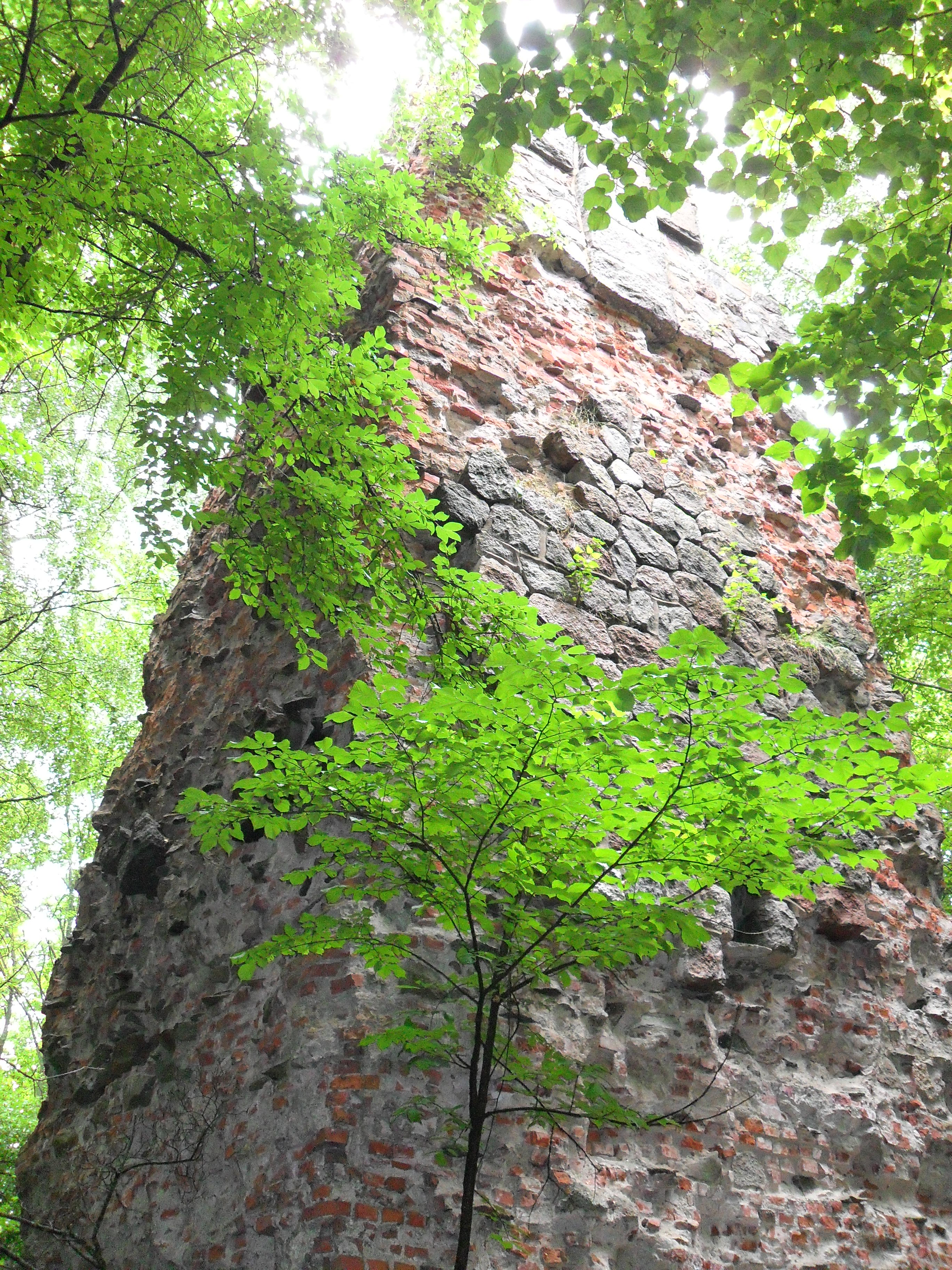 Bismarck tower in Gorino, Kaliningrad